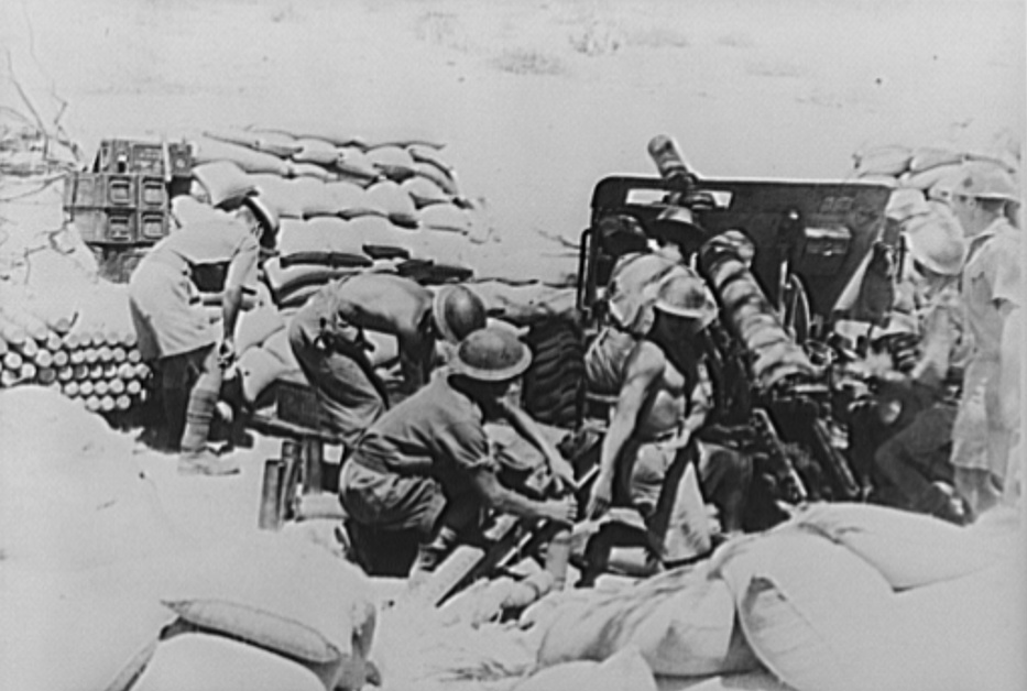 India in the war. Indian soldiers in action before the capture of Keren in Eritrea . This gun hurled approximately 24,000 shells a day. Note the shadow of camouflage on the field gun.